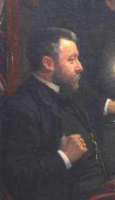 Detail of painting showing Erik Ritzau